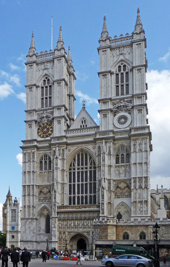 Westminster Abbey and War Memorial, London Westminster Abbey and War Memorial as seen from the south-west.